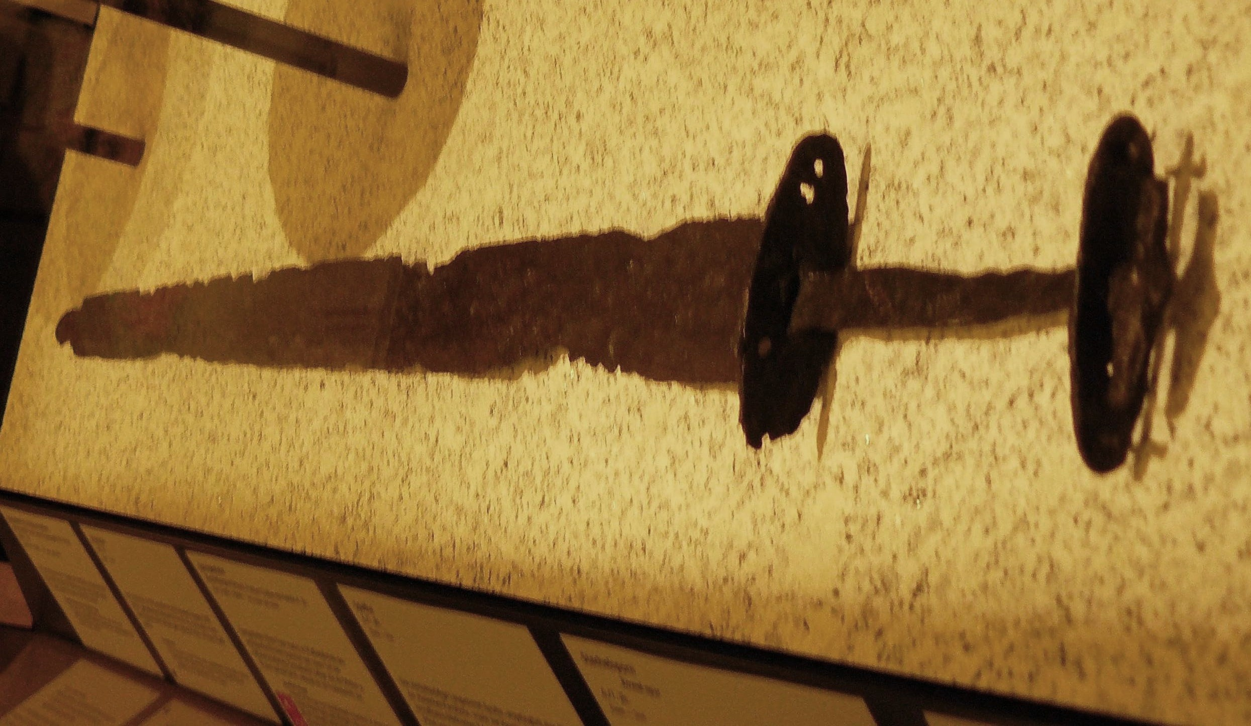 Spatha 6th-7th century, Deutsches Historisches Museum, Berlin